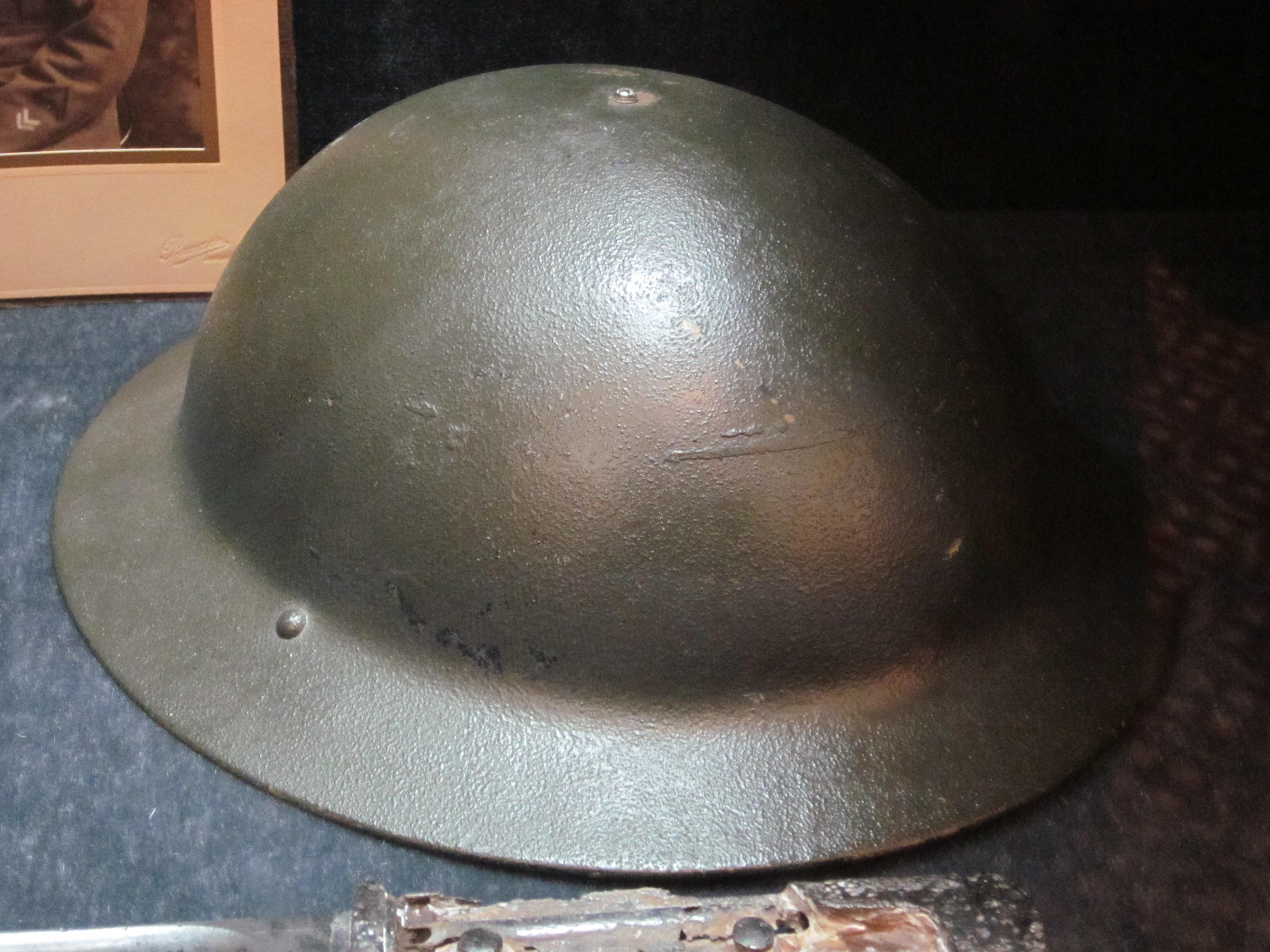 A USMC Brodie helmet on display at the Marines' Memorial Hotel in San Francisco, California.